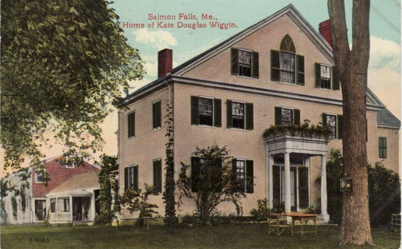 Postcard picture of home of children's author Kate Douglas Wiggin in Salmon Falls, Maine